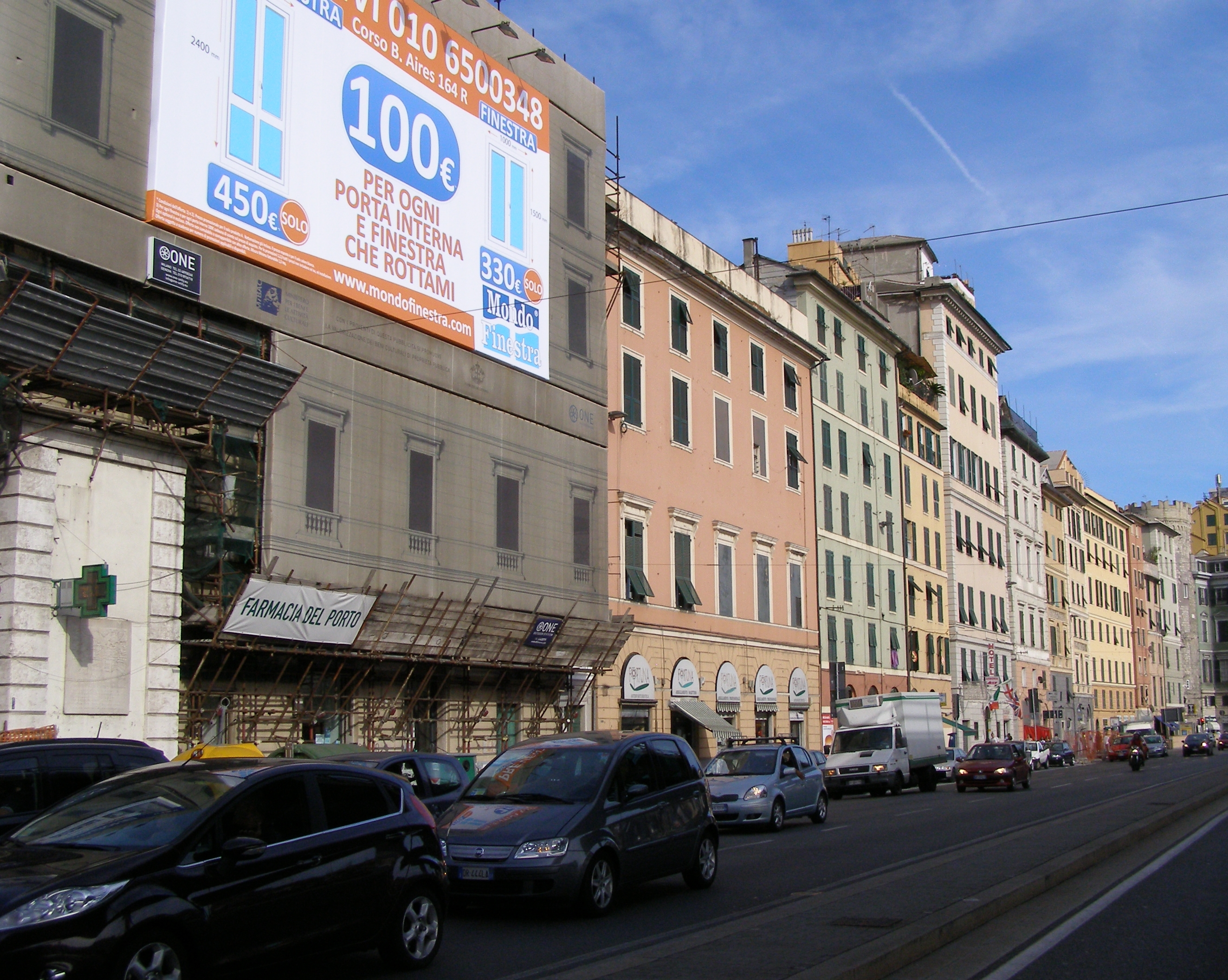 Genoa - Via Antonio Gramsci